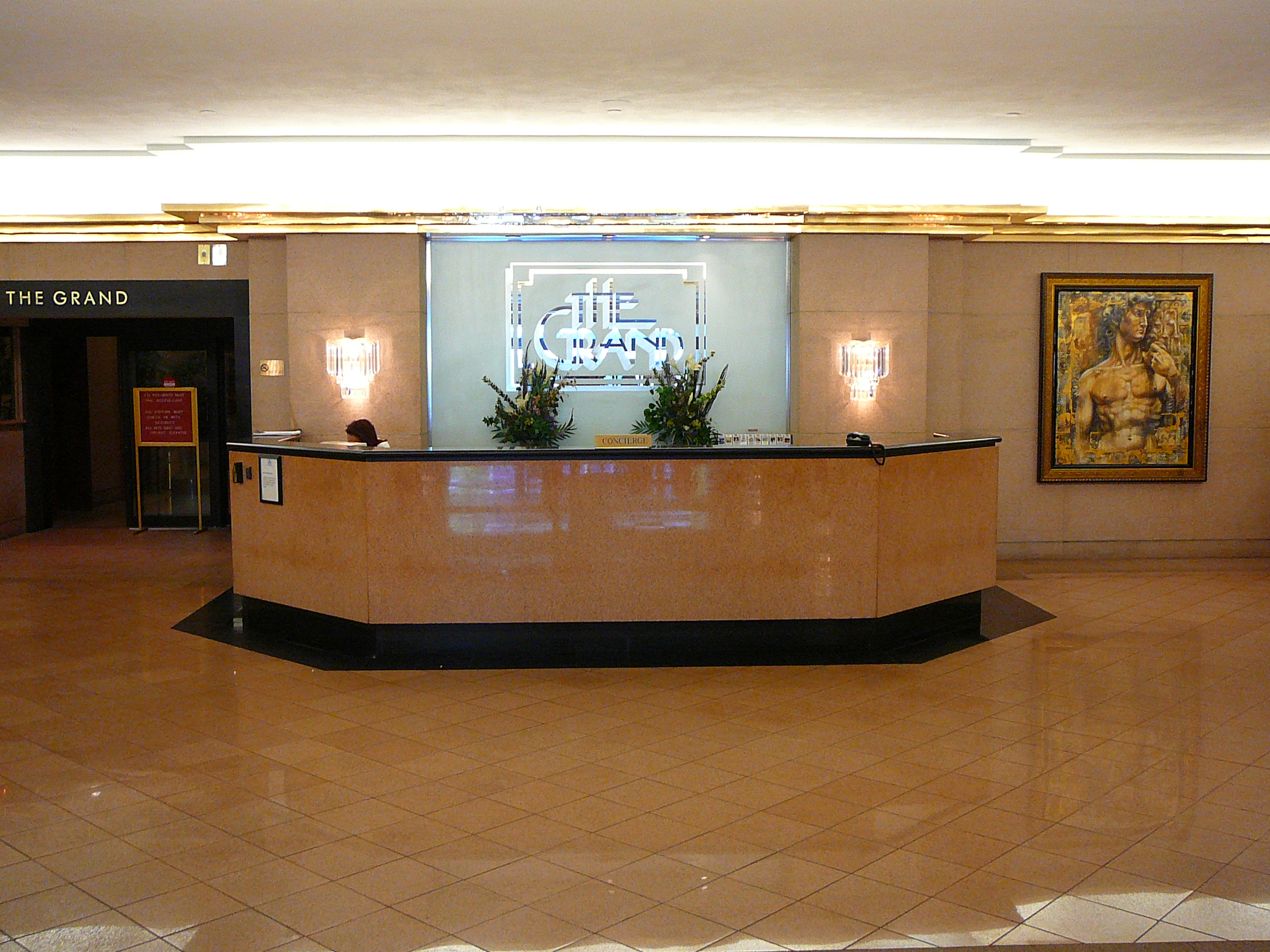 Digital photo taken by Marc Averette. The concierge desk of The Grand Doubletree in Downtown Miami